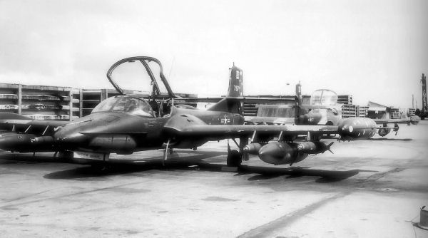 South Vietnamese Air Force A-37 dragonfly at Phu Cat Air Base (Vietnam War).